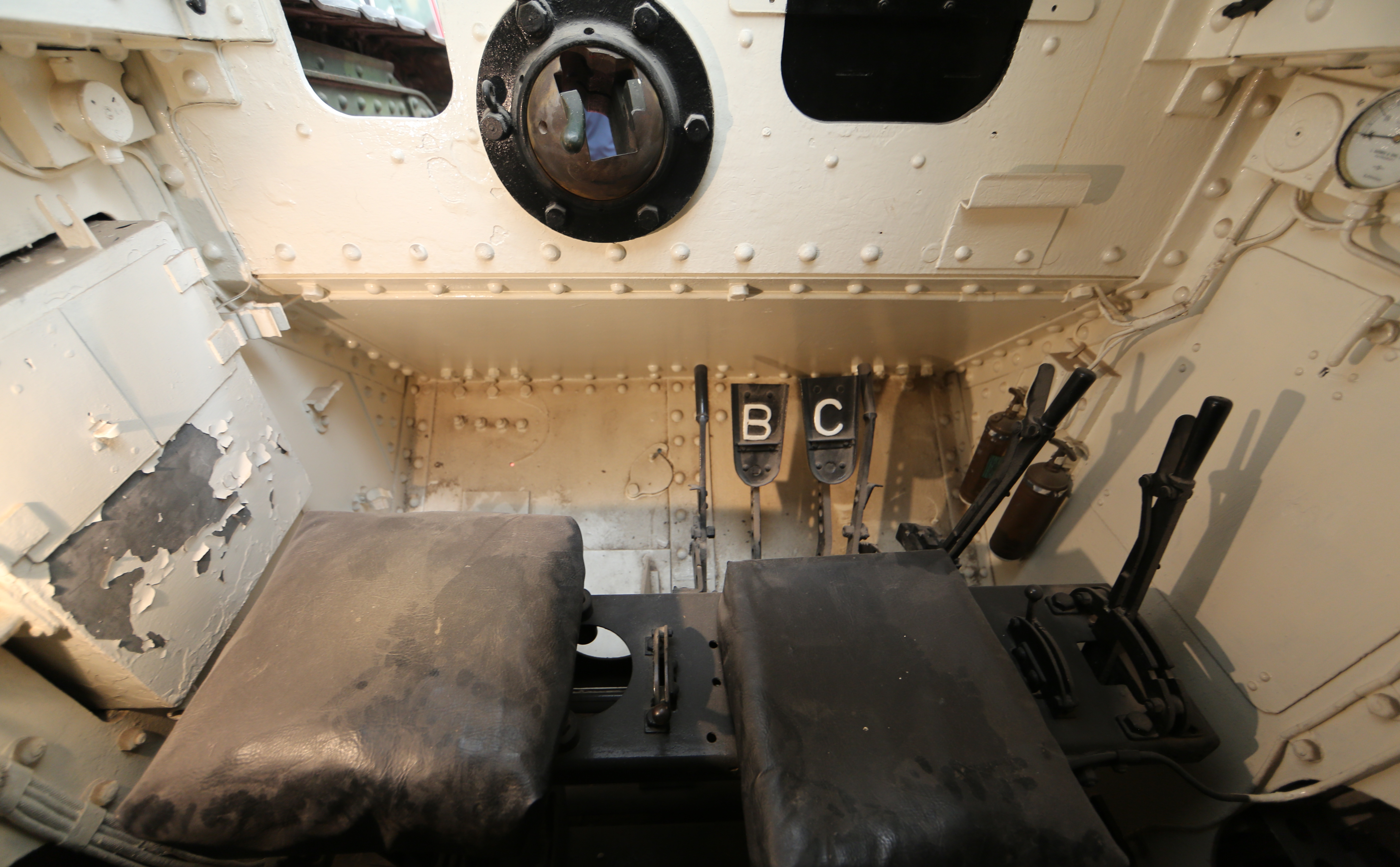 Photo of the driver and forward machine gunner's seat on a Mark V** tank specifically the Bovington tank museum's Ol'Faithful